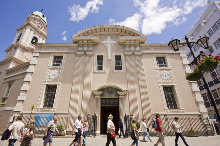 Western main entrance to the Cathedral of St. Mary the Crowned, Main Street, Gibraltar.